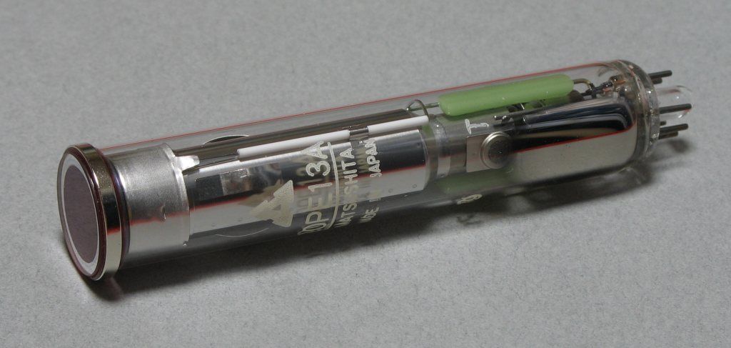 Photograph of a vidicon vacuum tube, 2/3 inch in diameter. Croped & resized.